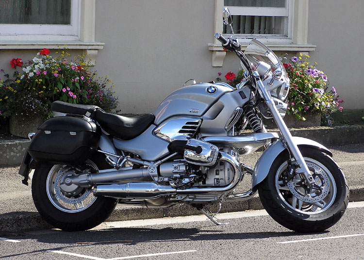 BMW R1200 motorcycle, seen in Thornbury, near Bristol, England.